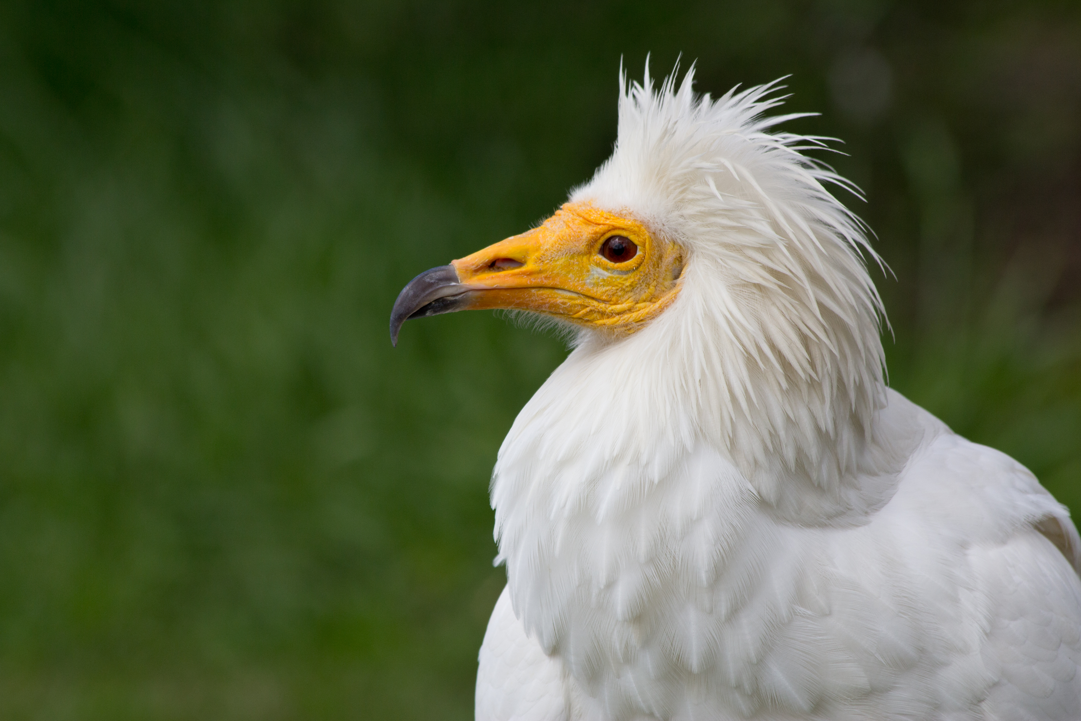 Egyptian Vulture, White Scavenger Vulture or Pharaoh's Chicken (Neophron percnopterus) in the Zoo of Madrid, Spain.